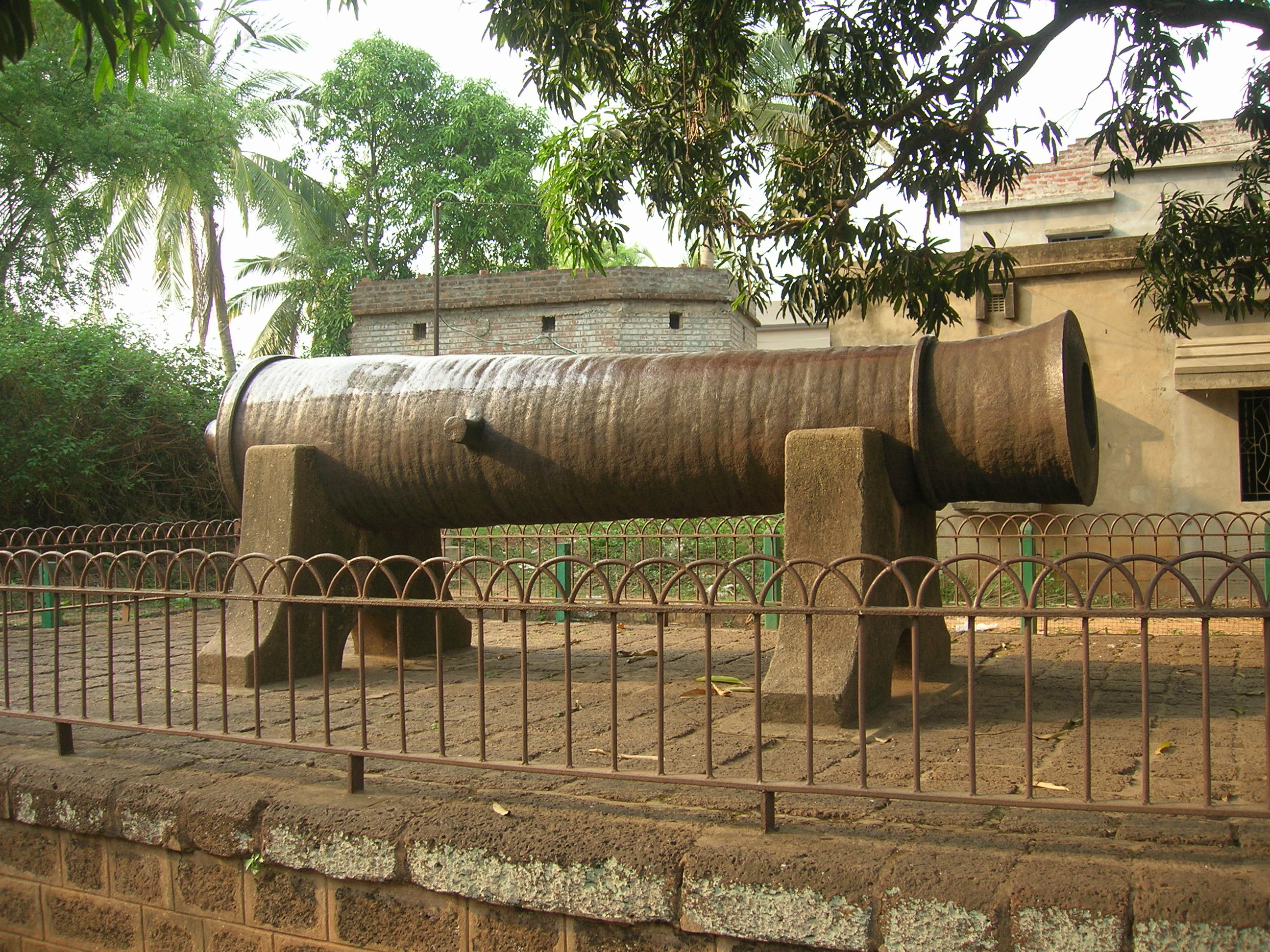 Dalmadal Canon (c. 1600), Bishnupur, Bankura dist., West Bengal, India.